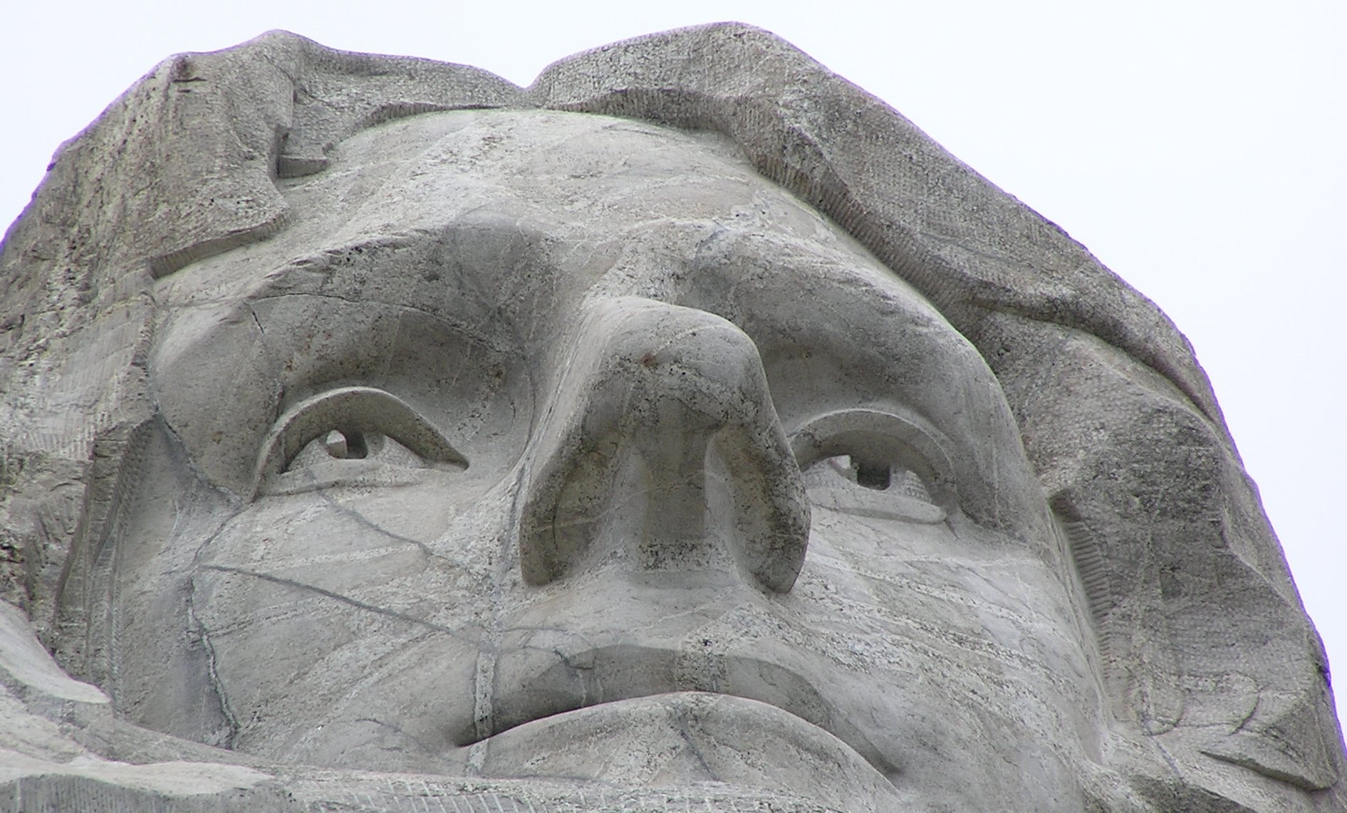 Mt. Rushmore, Thomas Jefferson closeup.